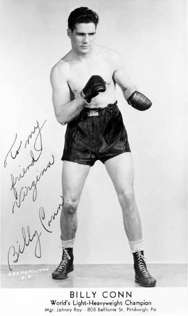 Billy Conn in Boxing Pose in dark trunks, shirtless, against white background. Company taking the picture was Cosmopolitan. Source: BoxRec Boxing Site. URL: License rationale: The company which held the copyright to this promotional photograph, Cosmopolitan did not renew their copyright. Conn died in 1993. As this copyright was not renewed, this defines the licensing status in the United States as public domain.